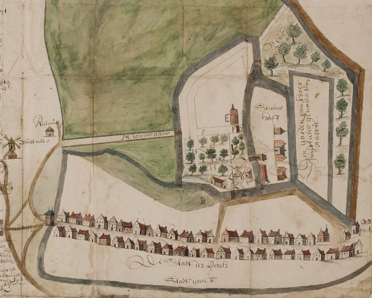 Terborg and castle Wisch (Netherlands)